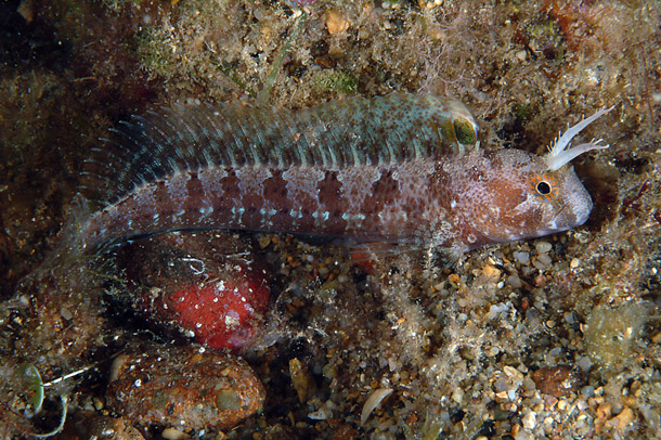 Parablennius tentacularis photographed on Livorno area (Tuscany, Italy). Photo by Stefano Guerrieri.